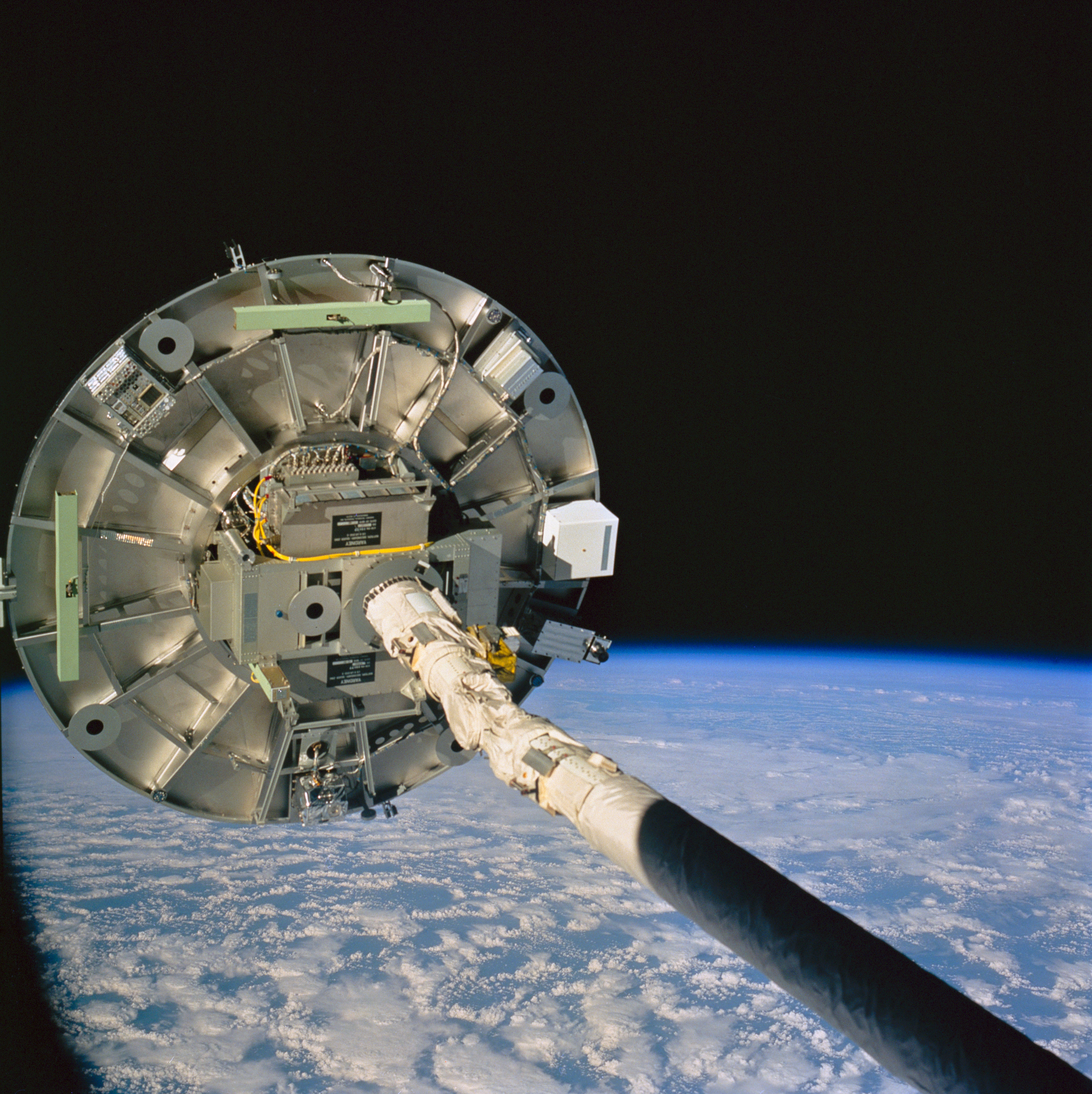 The NASA gallery provided the following description of the image: "The Wake Shield Facility (WSF) is a free-flying research and development facility that is designed to use the pure vacuum of space to conduct scientific research in the development of new materials. The thin film materials technology developed by the WSF could some day lead to applications such as faster electronics components for computers.